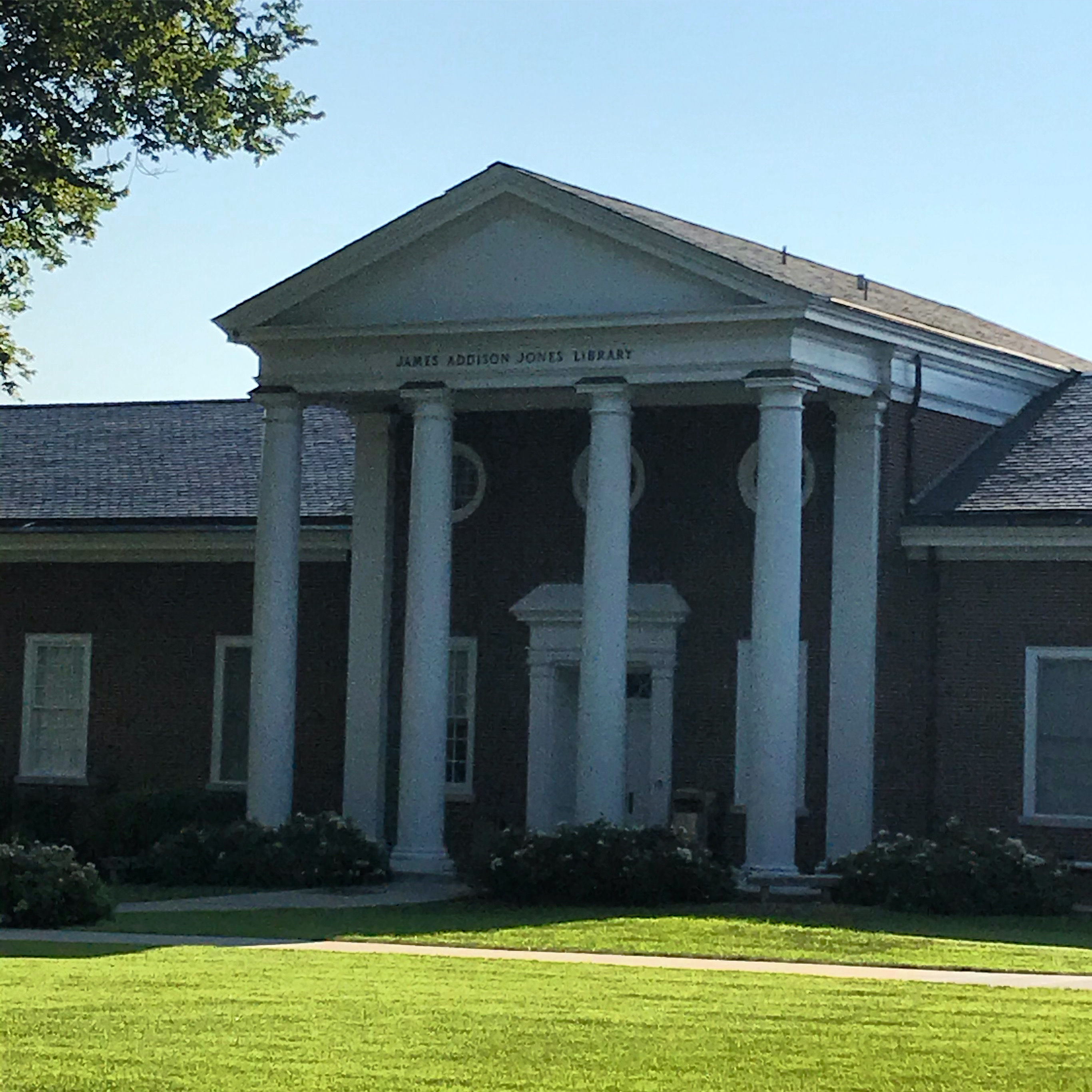 The James Addison Jones Library, located on the campus of Greensboro College, is the bibliographic heart of the College. The historical building houses the College's library, the Levy-Loewenstein Holocaust Collection, and the First Citizens Bank Communications CEnter.